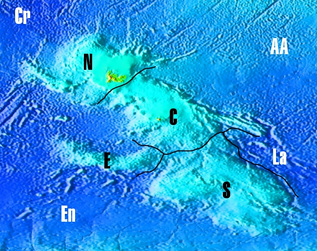 Geological subdivisions of the Kerguelen Plateau: (N)orthern, (C)entral and (S)outhern Kerguelen Plateau, (E)lan Bank - in black; and surrounding units: (En)derby Basin, (Cr)ozet Basin, (AA)=Australian-Antarctic Basin and (La)buan Basin - in white.